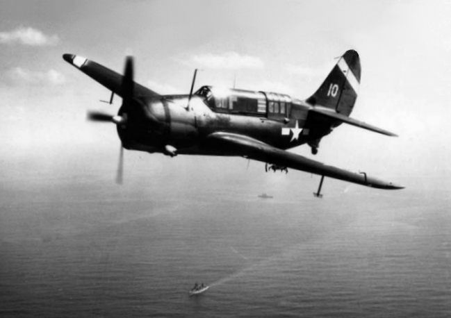 A U.S. Navy Curtiss SB2C-3 Helldiver bomber from Bombing Squadron VB-80, Carrier Air Group 80 (CVG-80), assigned to the aircraft carrier USS Hancock (CV-19), flies over two battleships of the invasion fleet, during strikes on Iwo Jima on 19 February 1945. Note Hancock´s geometric air group identification symbol on the SB2C.